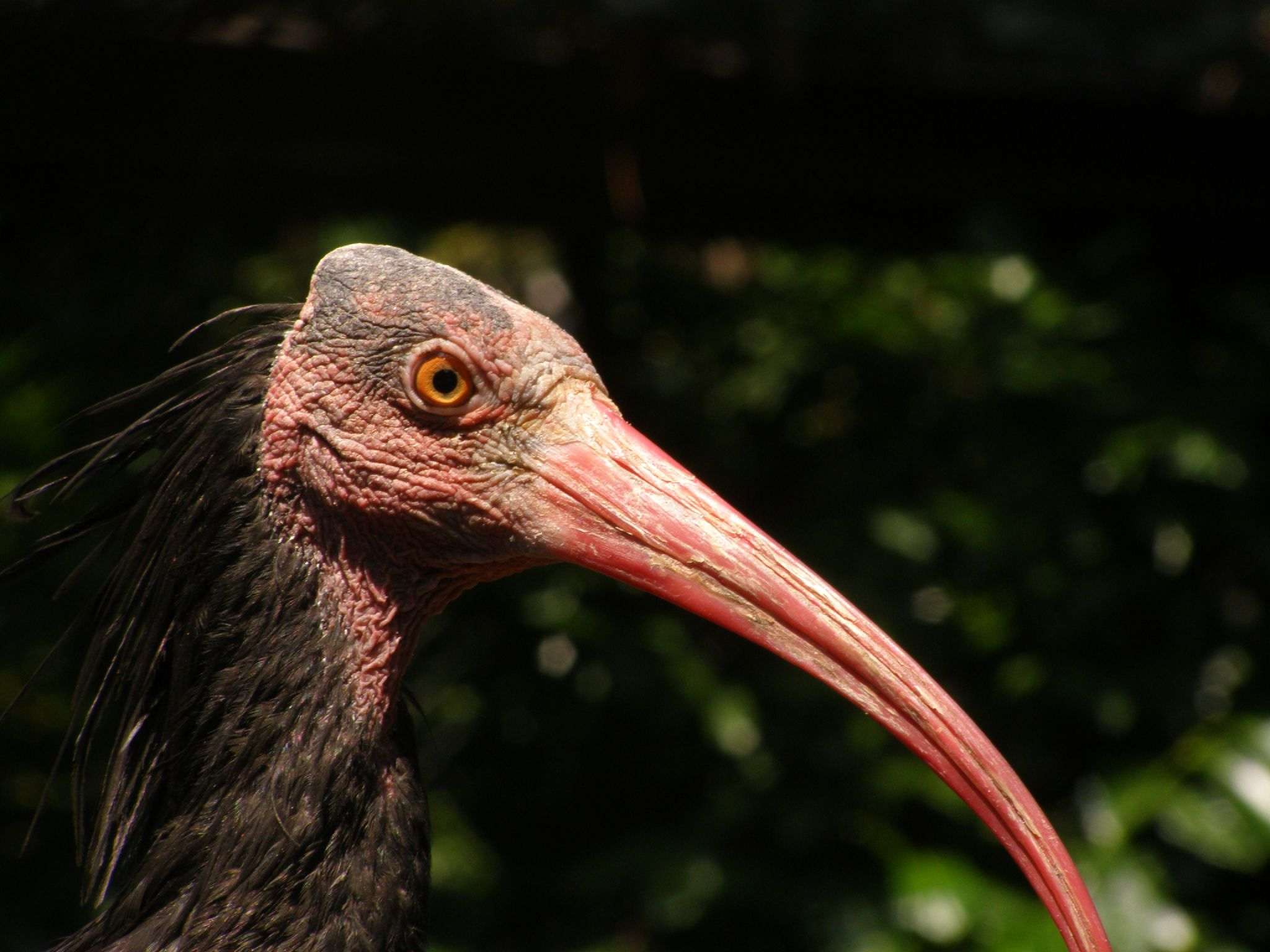 Northern Bald Ibis, face, close-up